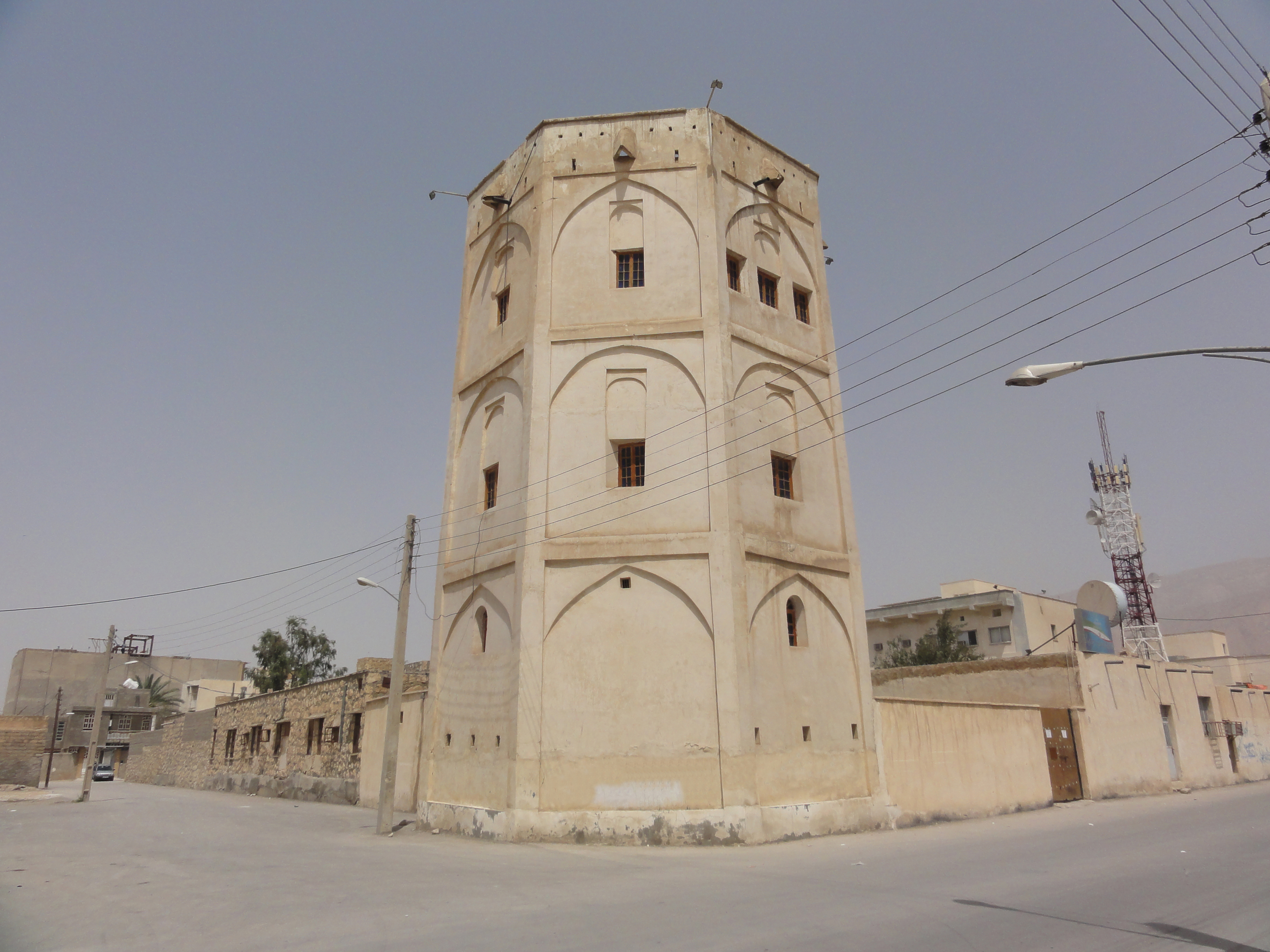 Khurmoj Castle, Bushehr Province, Iran.